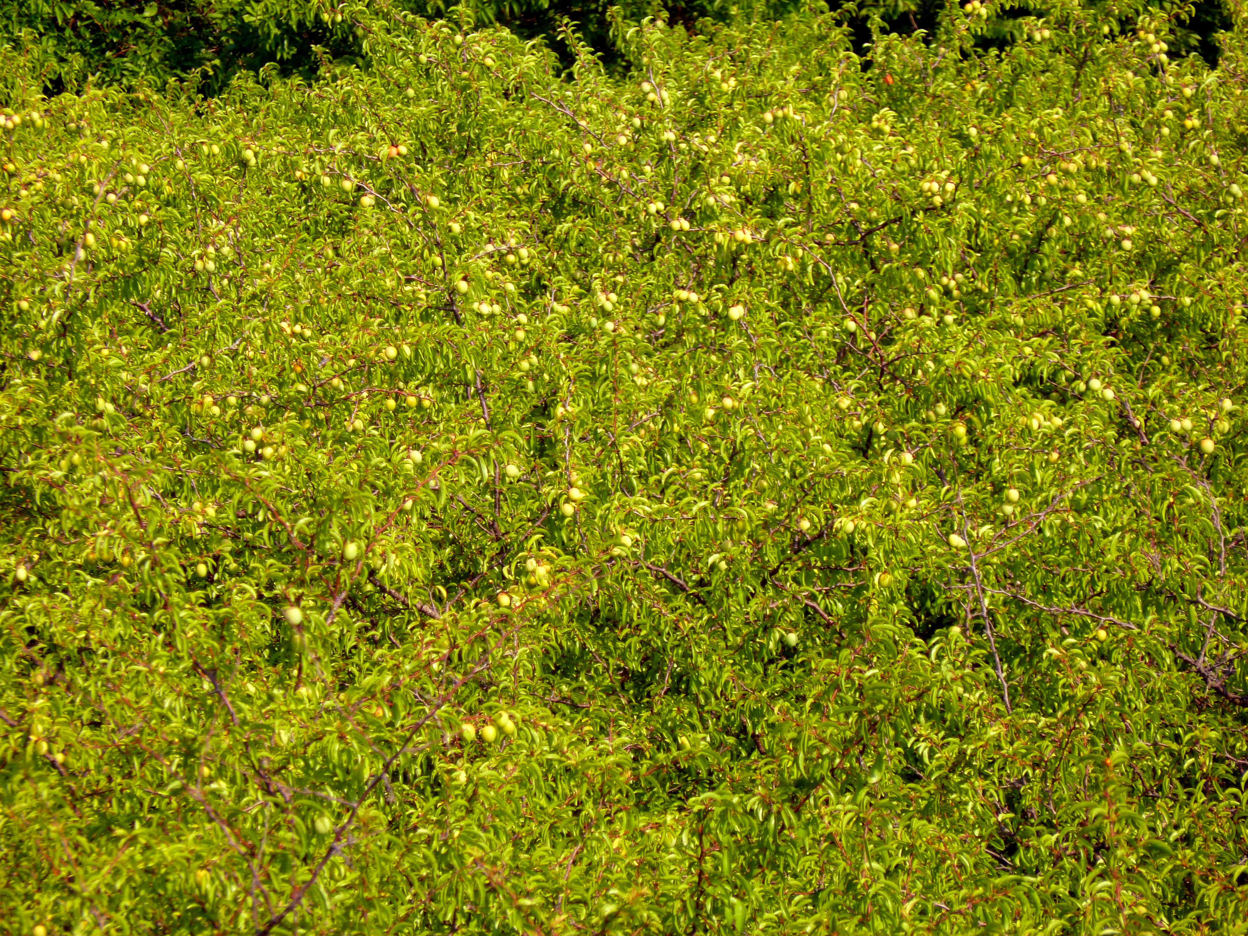 Thicket of Chickasaw Plum, Cherokee plum, Florida sand plum, sandhill plum, or sand plum. Whichever name one feels is appropriate is fine with me.